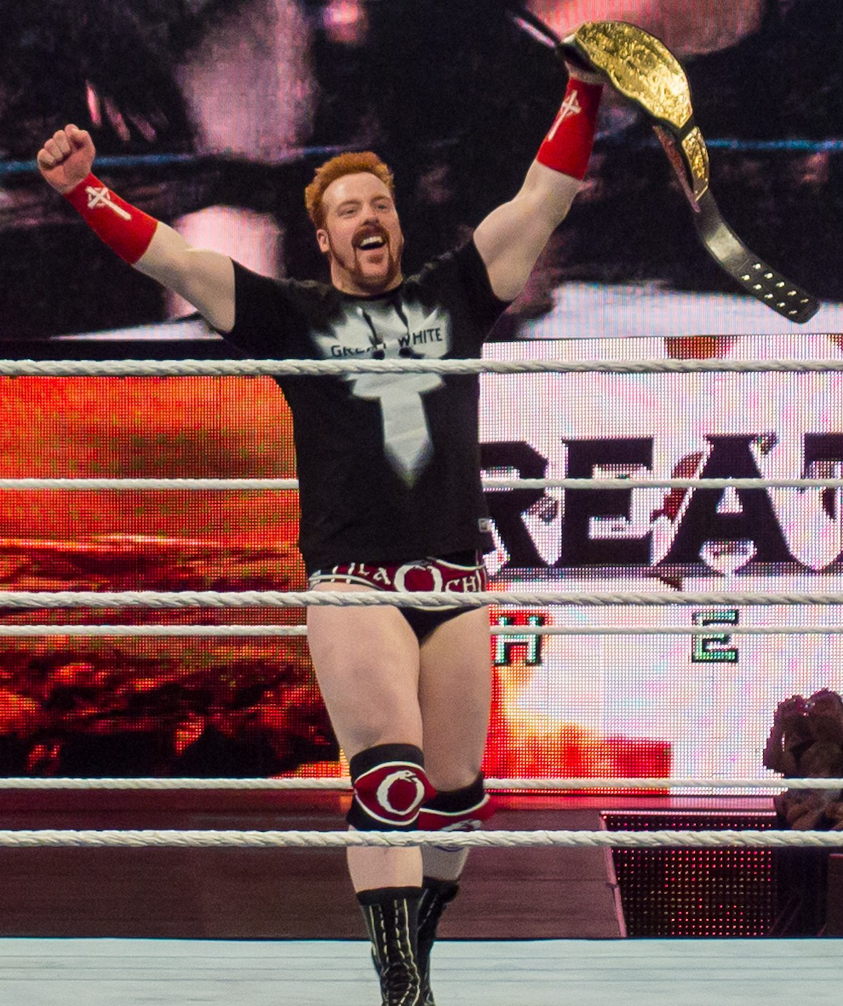 Sheamus poses as the World Heavyweight Champion at the WWE Raw tapings on 2 April 2012.